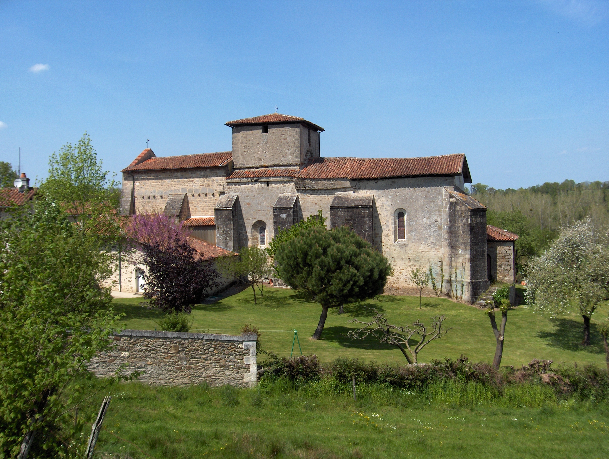 Church of Cherves-Chatelars - Charente - France - Europe